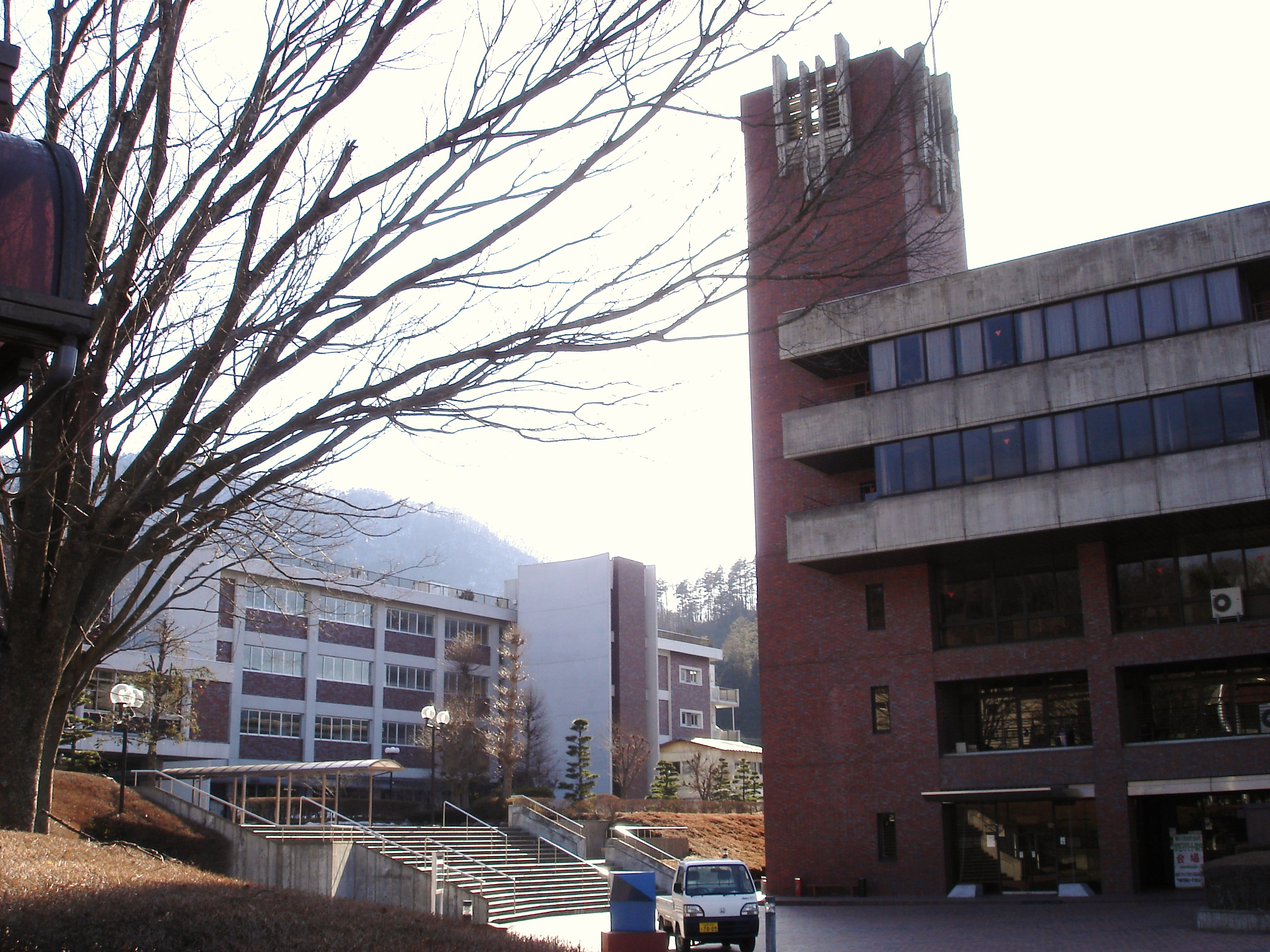 都留文科大学：正面のレンガ色のスペースは通称「赤の広場」、左半分の白い建物は1966年完成の「1号館」ここで主要な講義が行われる。右半分の茶色の建物は1981年完成の「本部棟」ここは1階には学生食堂、2階に大学本部がある。 Tsuru university:"Red square" "Building No.1" and "Main Administration Building". "Building No.1" was built in 1966. "Main Administration Building" was built in 1981.